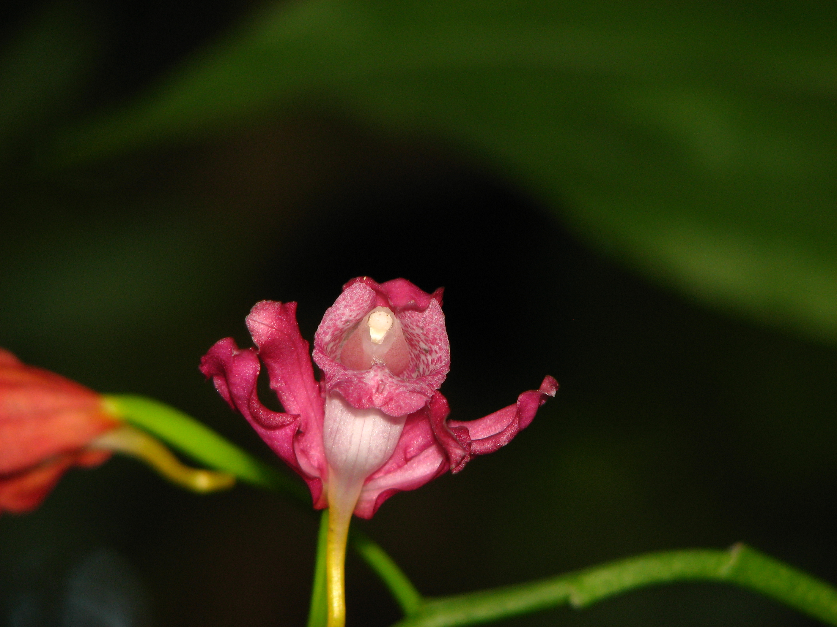 Namdapha Tiger Reserve, Arunachal Pradesh, India